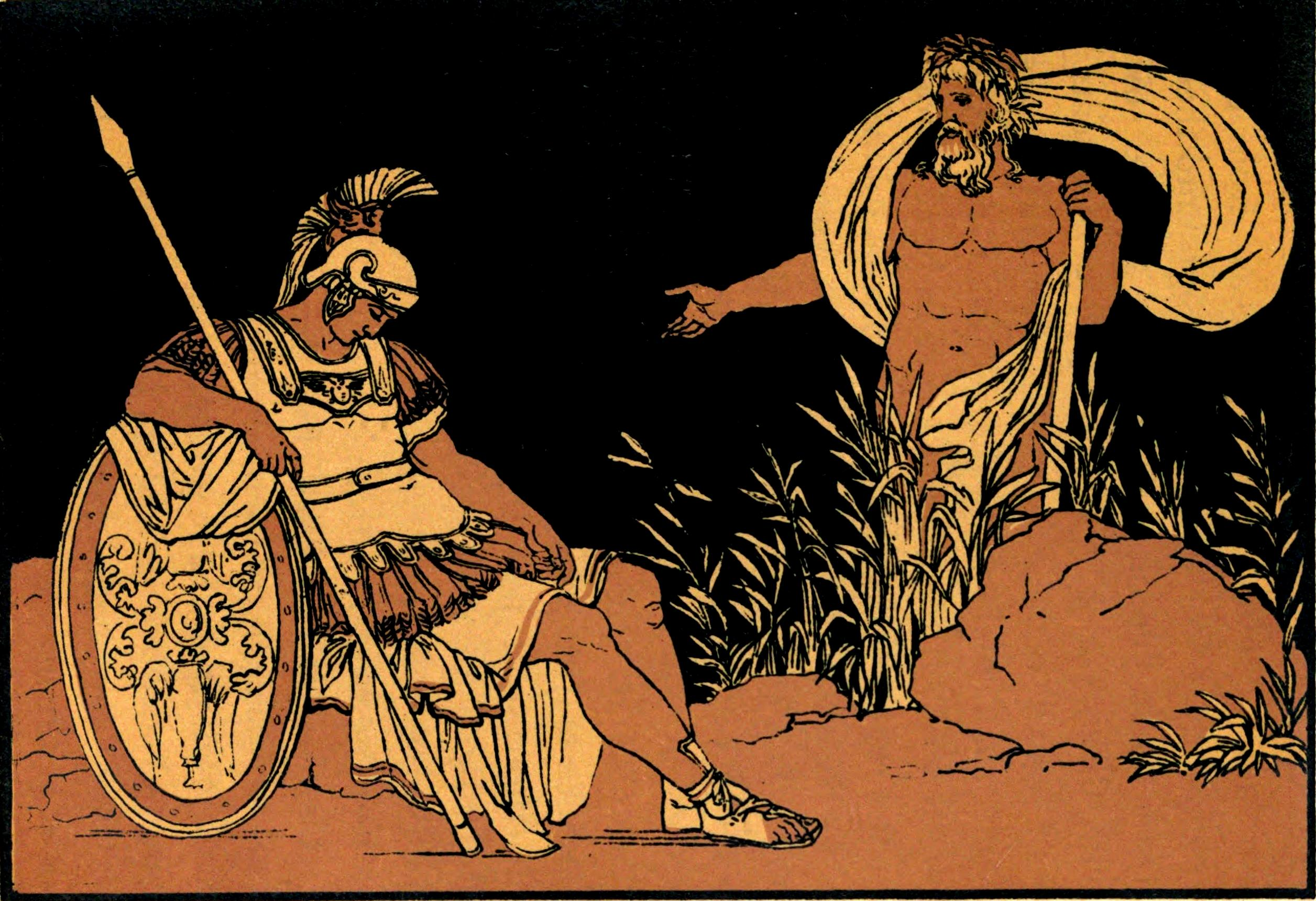 A coloured engraving representing the Roman hero Aeneas and the god Tiber